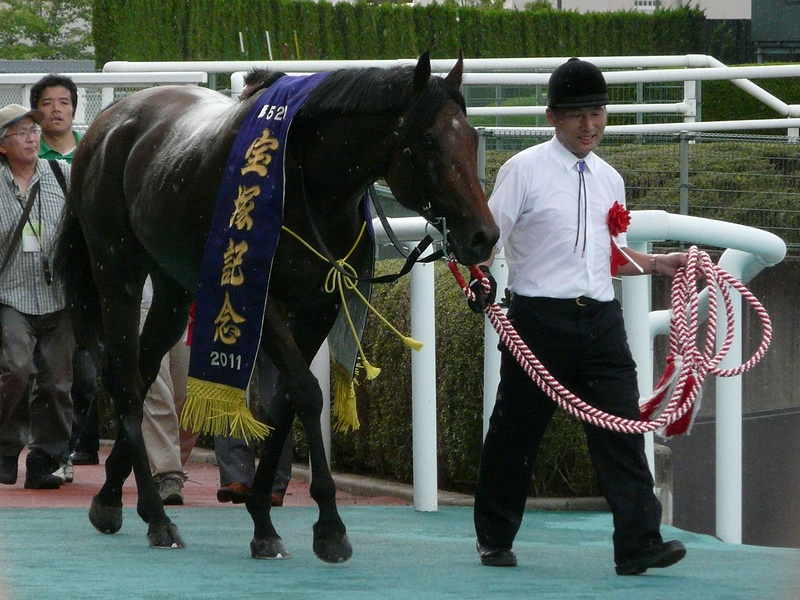 Earnestly20110626(2)